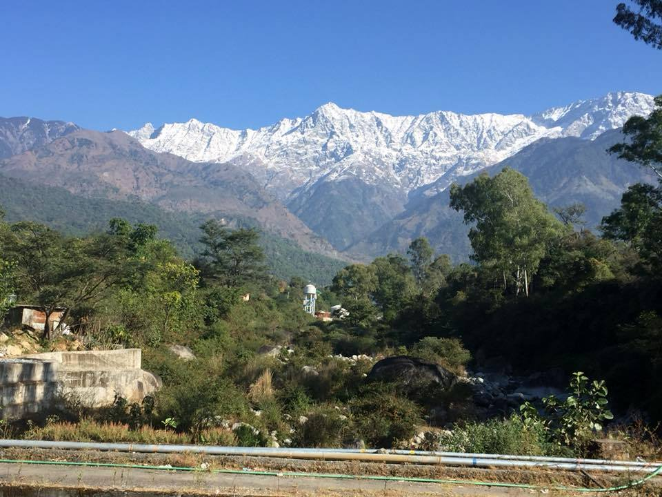 Dhauladhar mountain ranges,view from Dharamshala.Himachal Pardesh